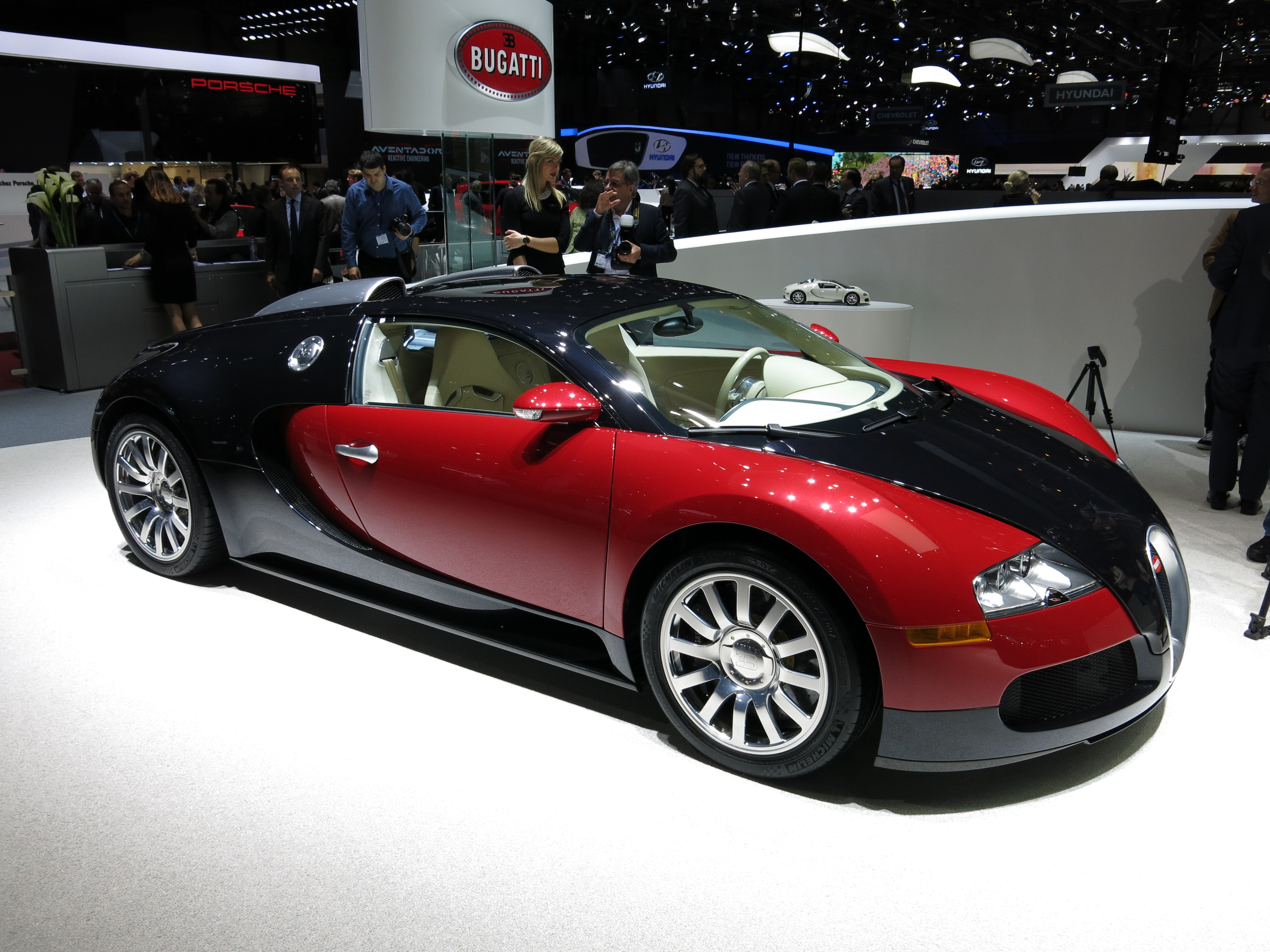 Geneva Motor Show 2015 (photo taken on the first press day)